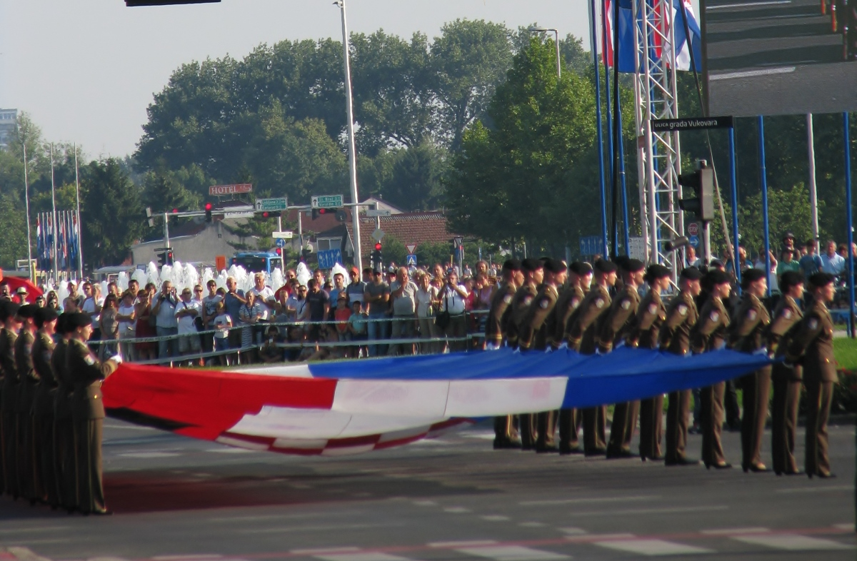 Flag at the Military Parade in Zagreb, 4 August 2015, military cadets